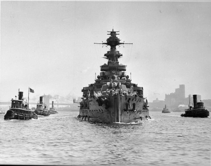 HMS Malaya Leaving New York Harbour After Repairs, 9 July 1941 HMS MALAYA, escorted by tugs, leaving New York harbour after refit in the United States. Part of the Brooklyn bridge can be seen in the background.